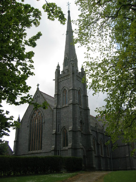 St Mary's church , Blairs College. St Mary's R Church at Blairs College on South Deeside.